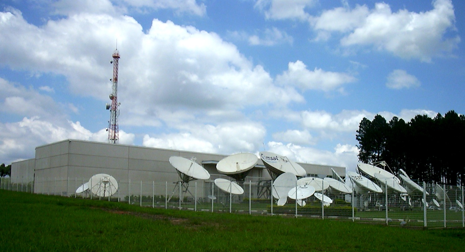 COMSAT Brazil facilities in Hortolândia, near Campinas. Photo taken by Renato M.E. Sabbatini on November 5, 2005